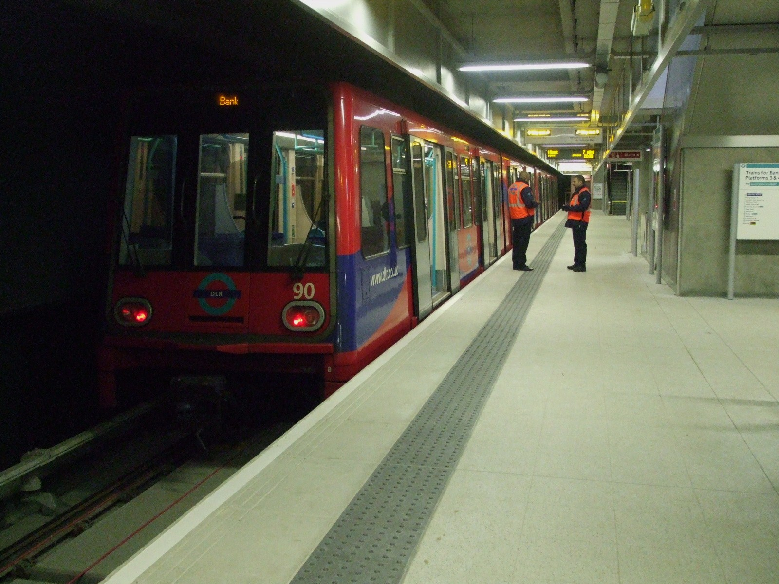 Unit 90 awaits return to Bank at Woolwich Arsenal DLR station south platform (this view looking west to buffers). The DLR platforms formally opened on 12th January 2009.